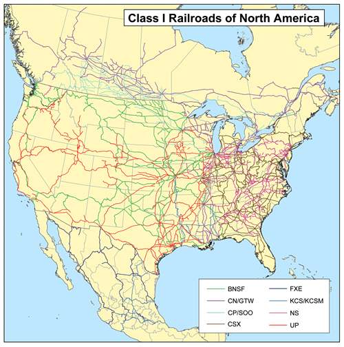 This is a map of the Class I Railroads I made using DOT data.